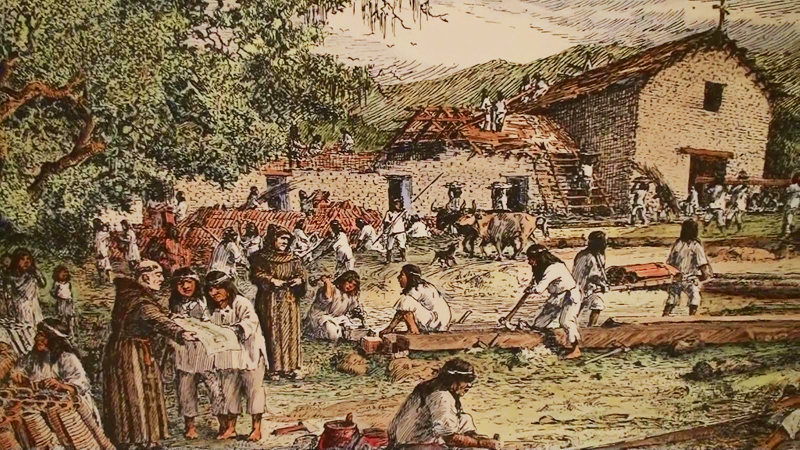 Indians, working the Missions of the Spanish settlers of the Americas